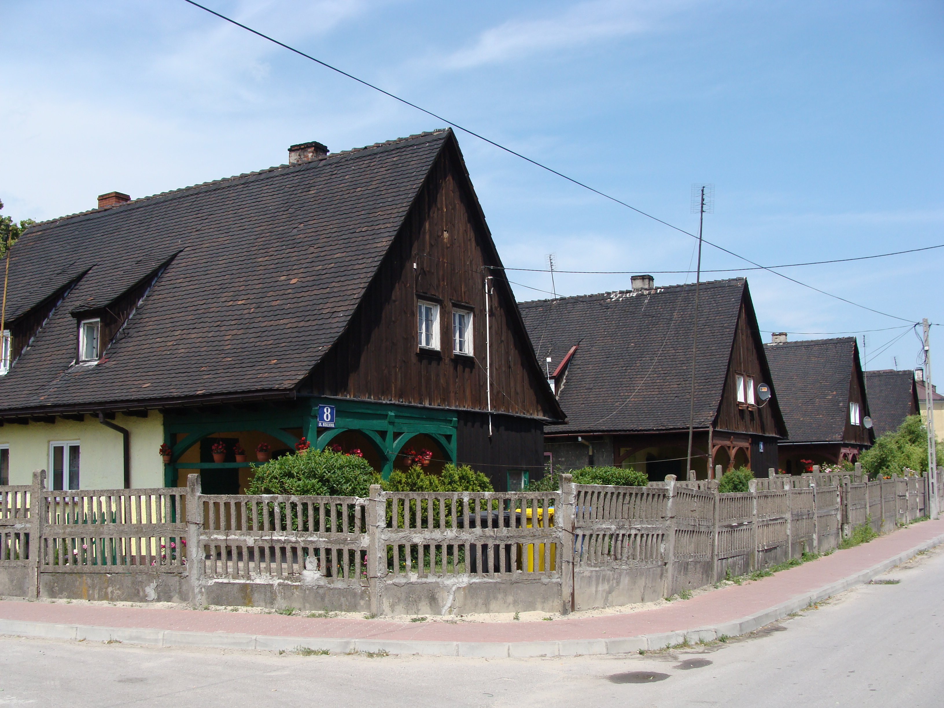 Sędziszów - Kolejowa Street